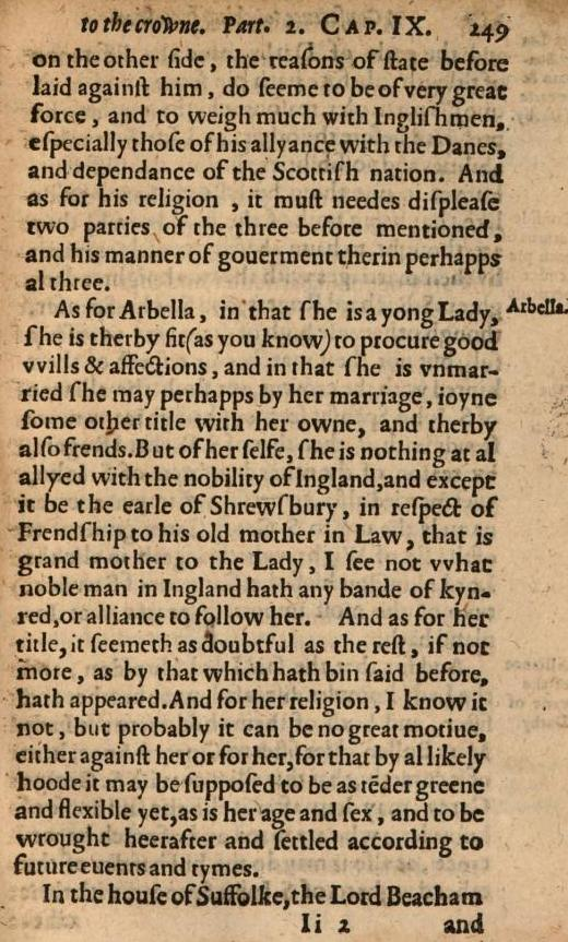 Page 249 from A Conference abovt the next svccession to the crowne of Ingland by R. Doleman (Robert Persons) discussing the succession prospects of Lady Arbella Stuart to Elizabeth I of England.